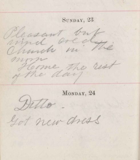 A page from Jane Foster's diary, the wife of Stephen Foster from 1871